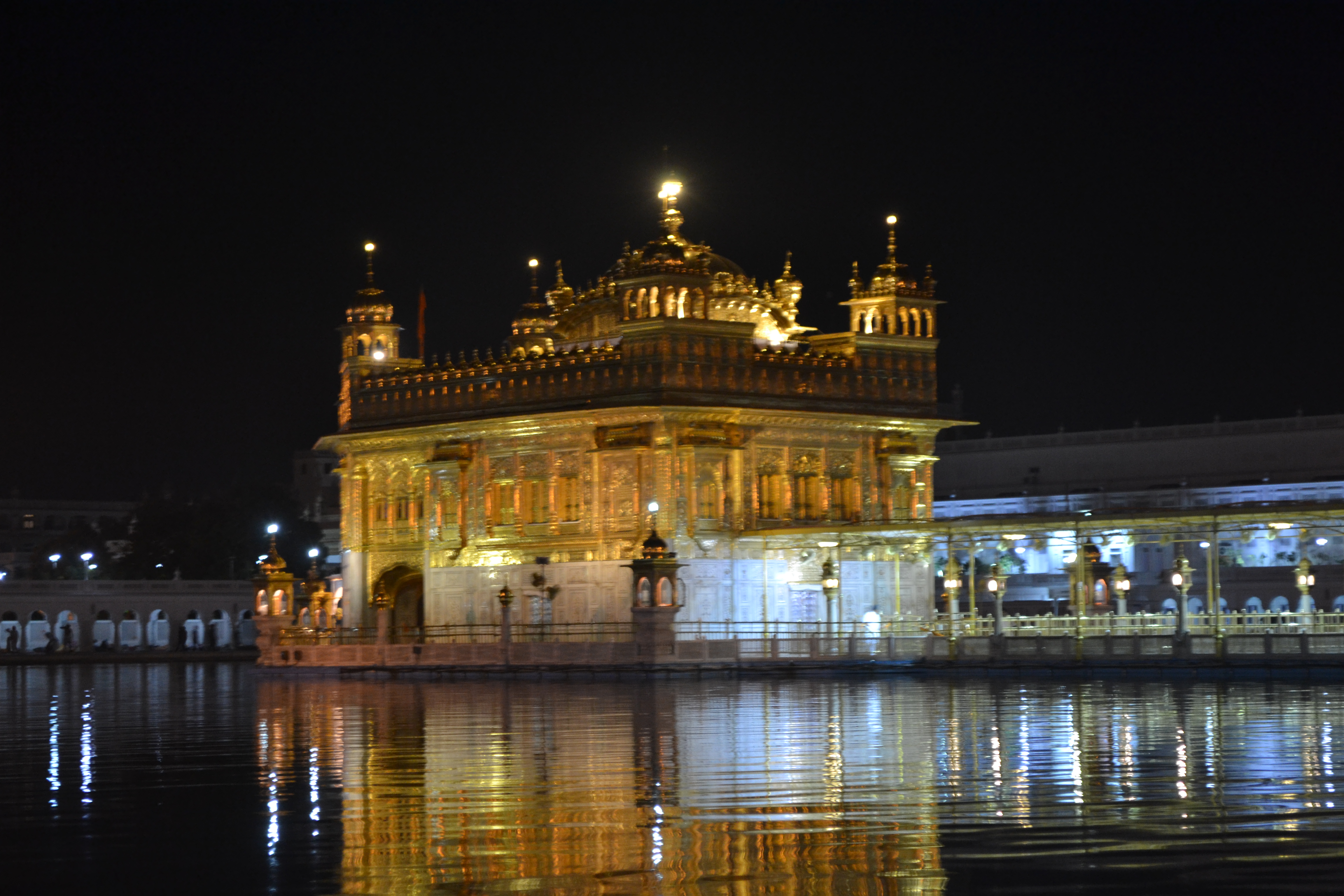 Golden temple punjab night view.